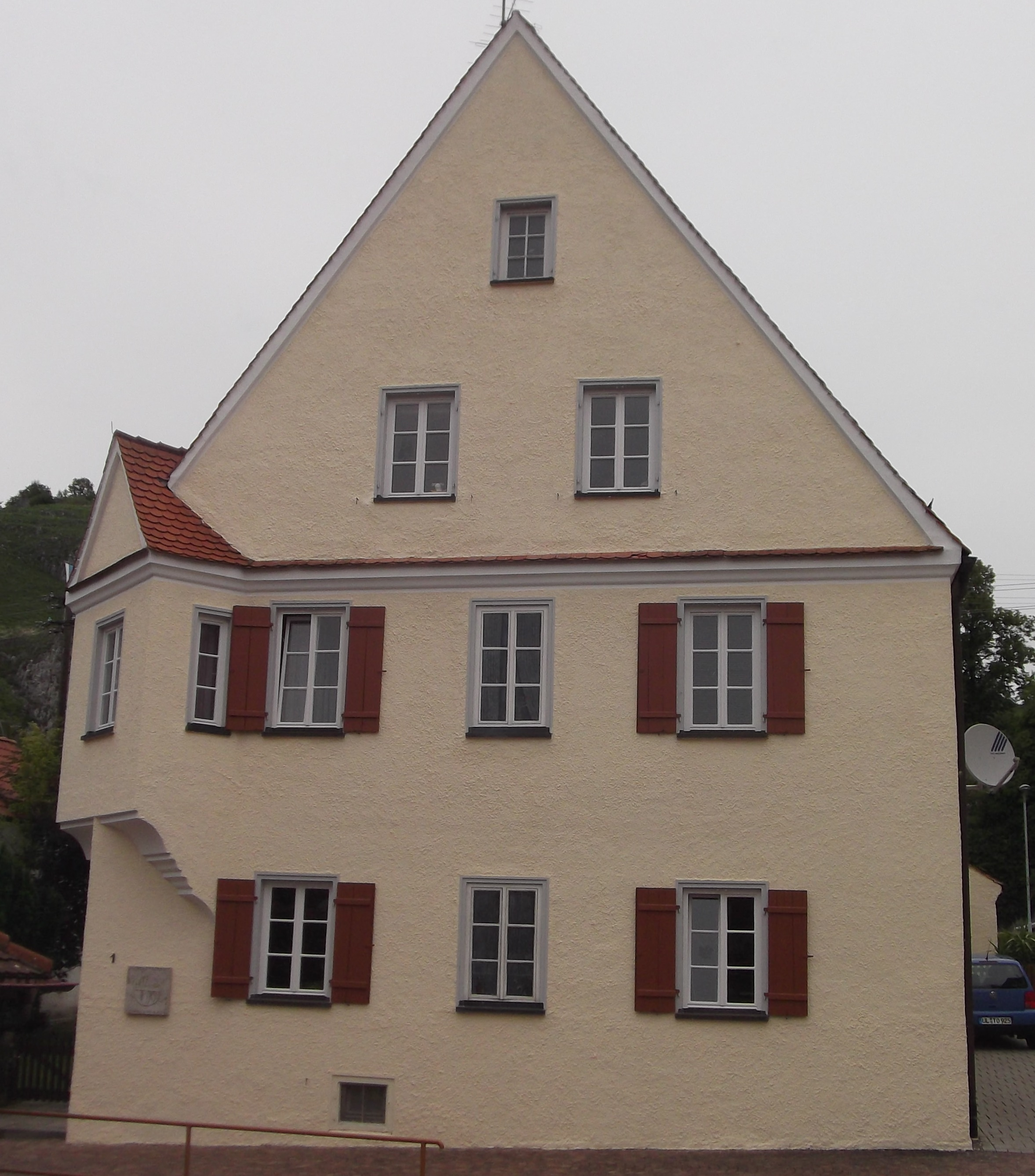 Former curates house of the Westernach noble family in Schelklingen, built in 1599, from the south